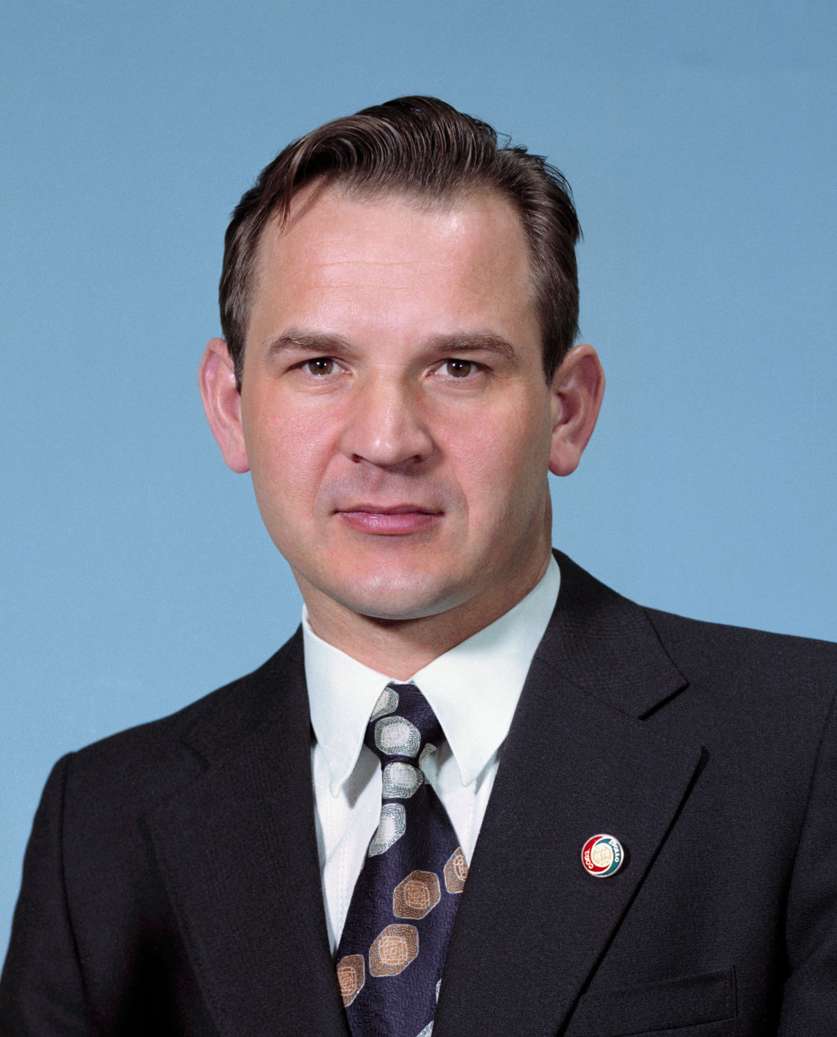 S74-20820 (25 April 1974) --- Cosmonaut Valeriy N. Kubasov